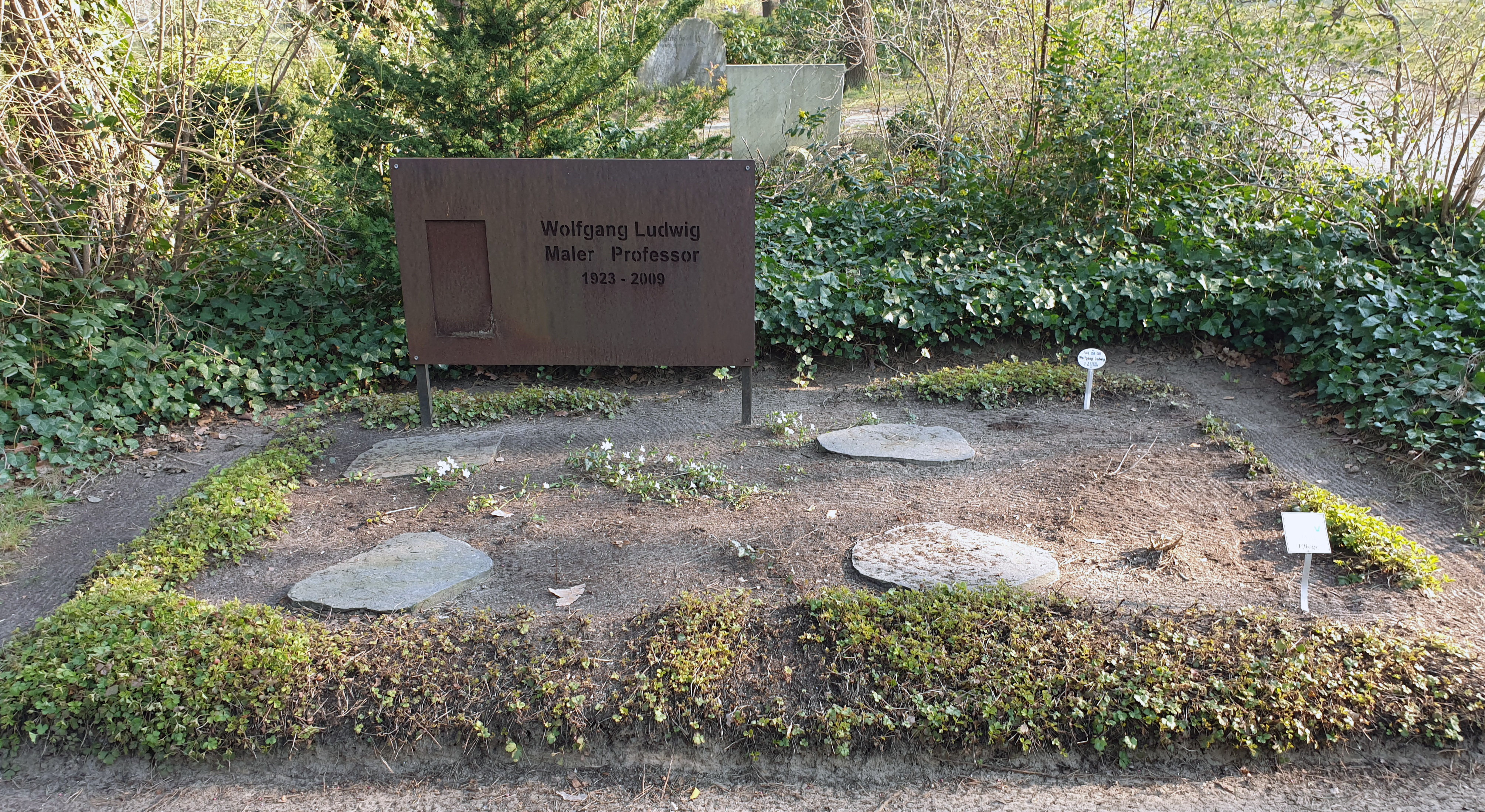 Grave, Wolfgang Ludwig, Potsdamer Chaussee 75, Berlin-Nikolassee, Germany